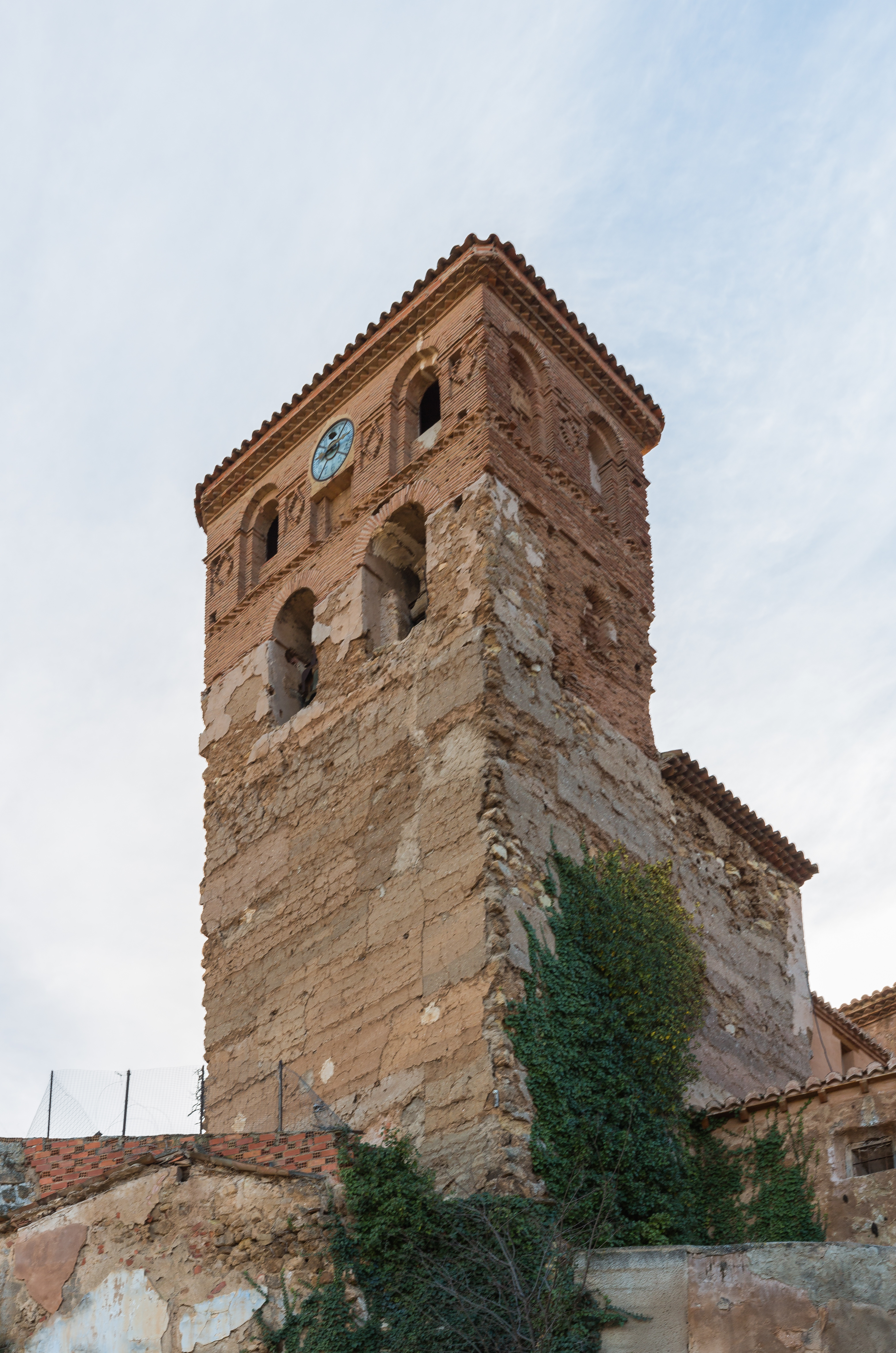 Church of St Julian, Nuévalos, Zaragoza, Spain